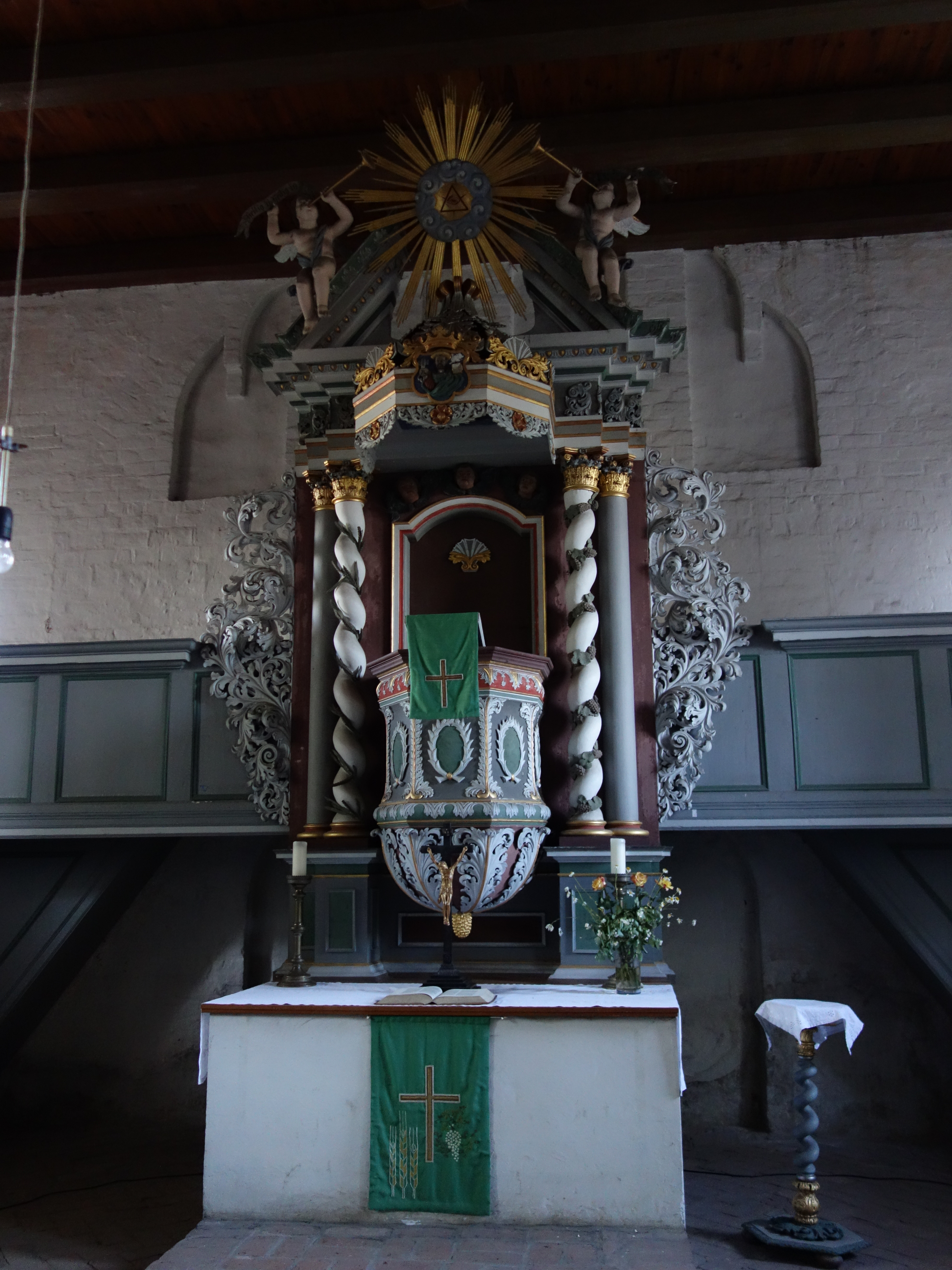 Pulpit altar of church in Buckow, Nennhausen municipality, Havelland district, Brandenburg state, Germany.